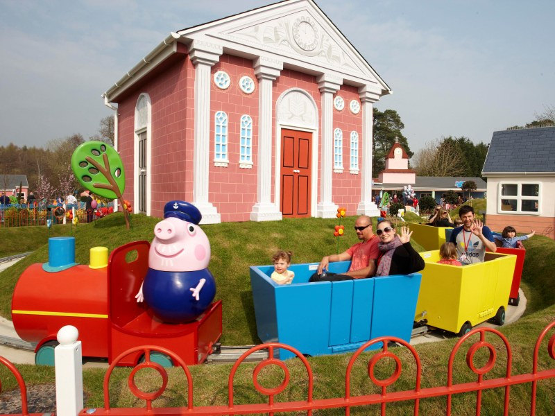 Grandpa Pigs Little Train Ride at Peppa Pig World Paultons Park